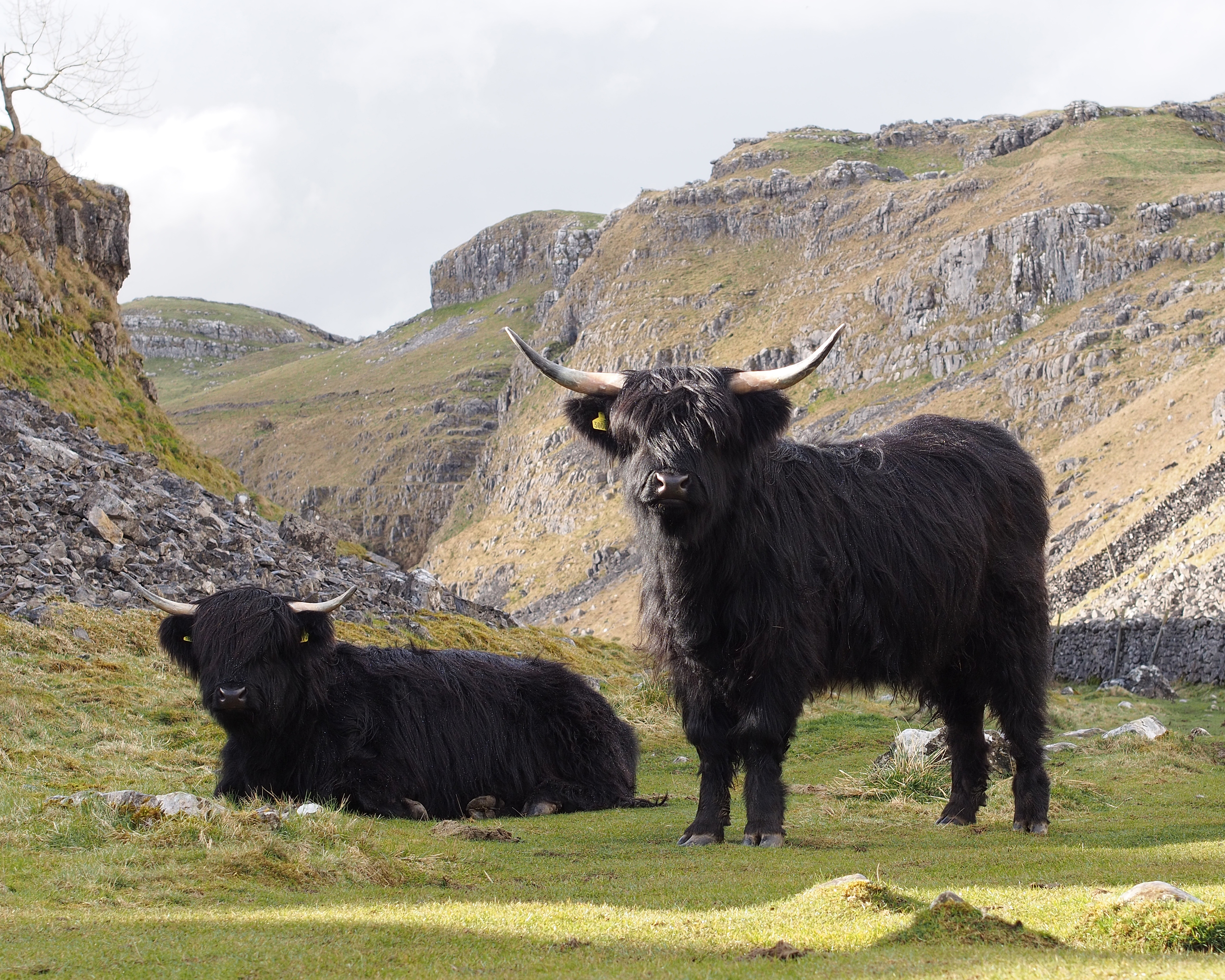 Highland cattle above Malham Cove